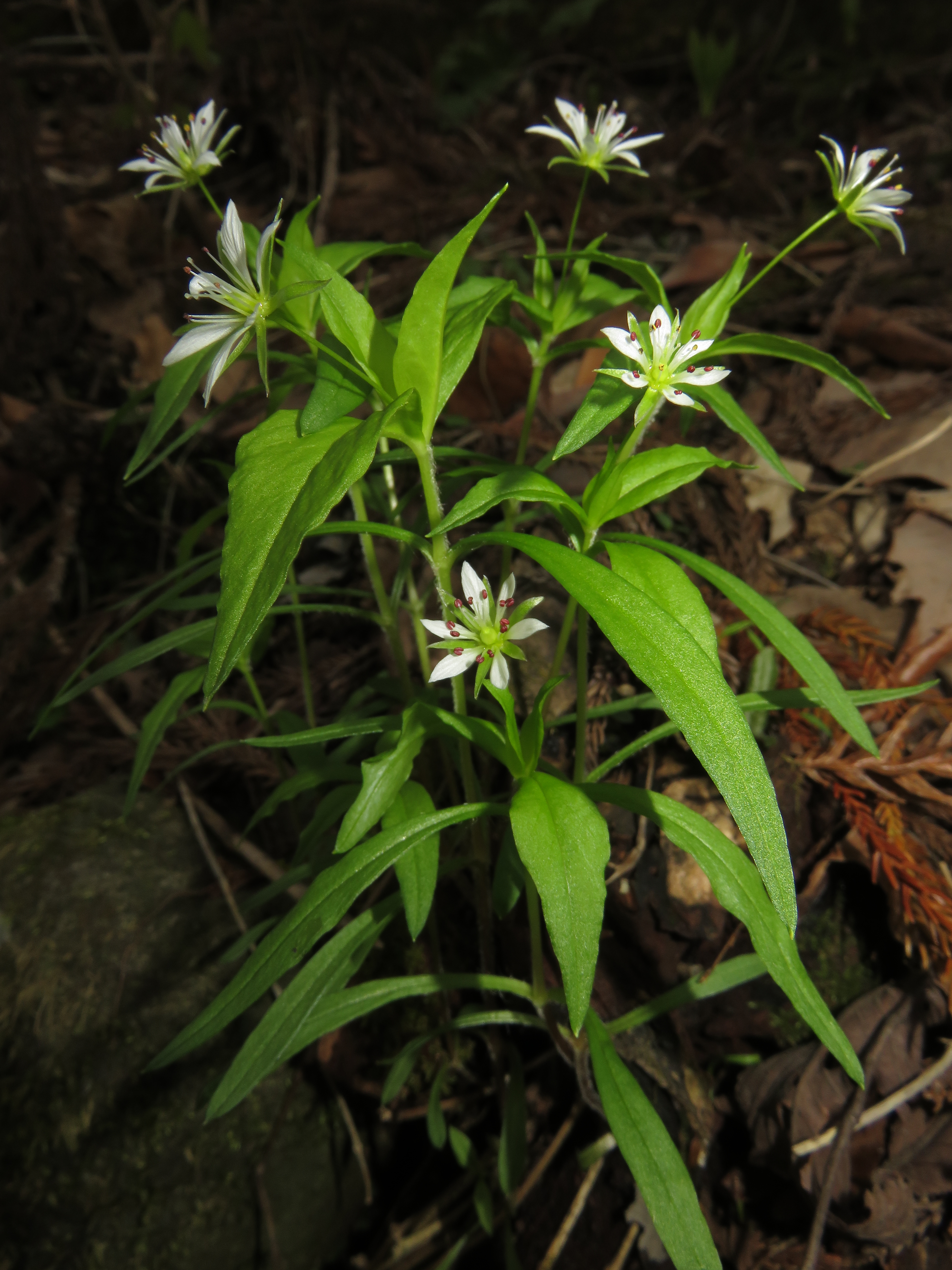 Pseudostellaria palibiniana, North area, Tochigi pref., Japan